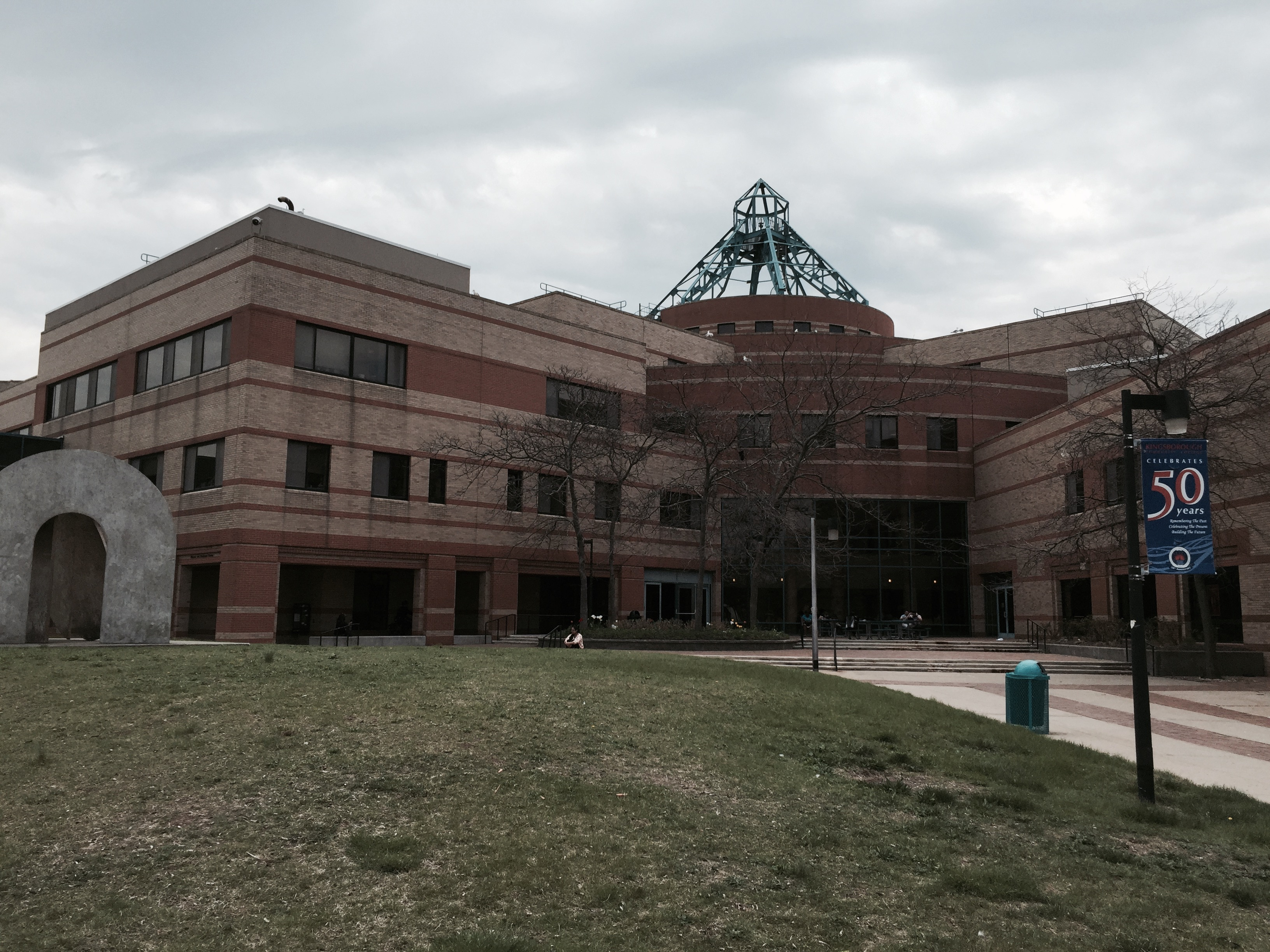 view of kingsborough community college